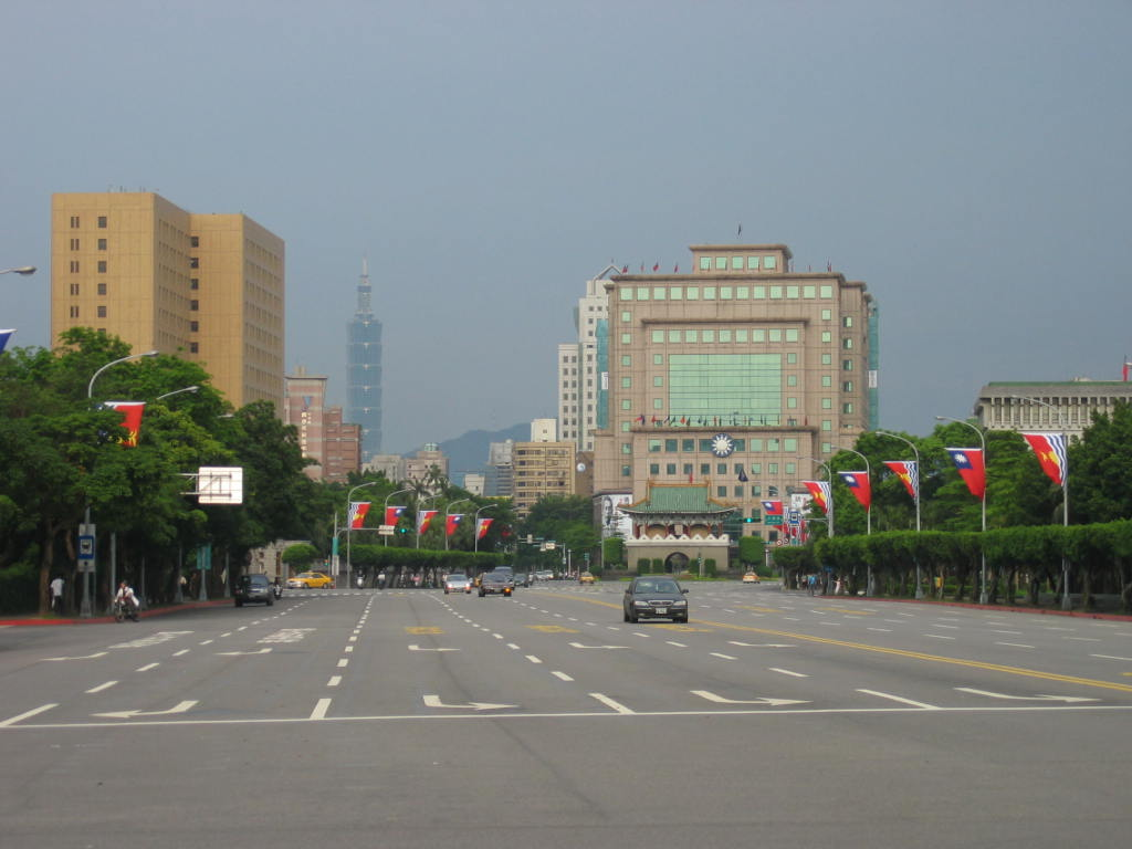 Ketagalan Boulevard and Kuomintang Central Committee in Taipei City, Republic of China.